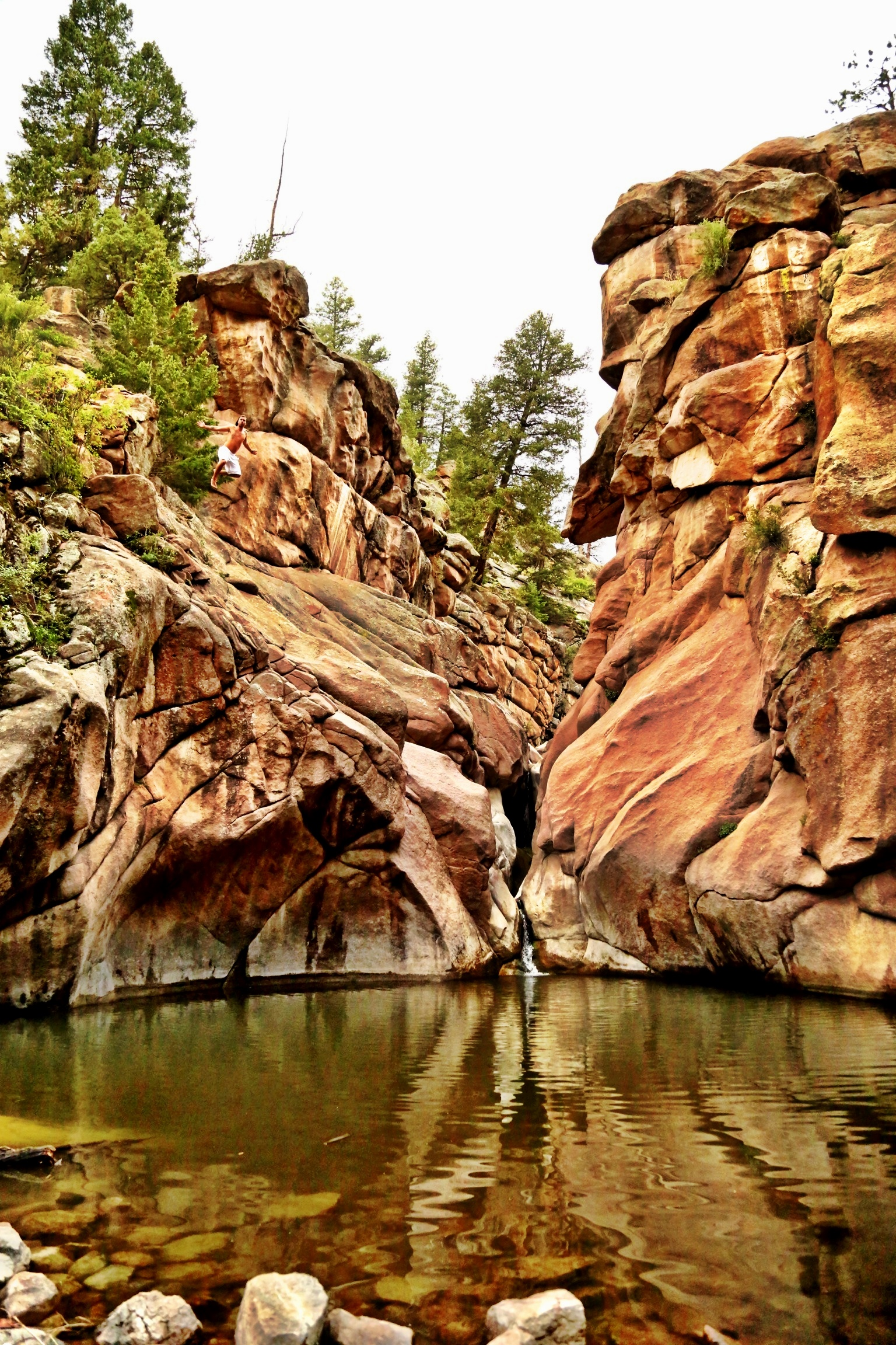 Cliff jumping into guffey cove in 2013